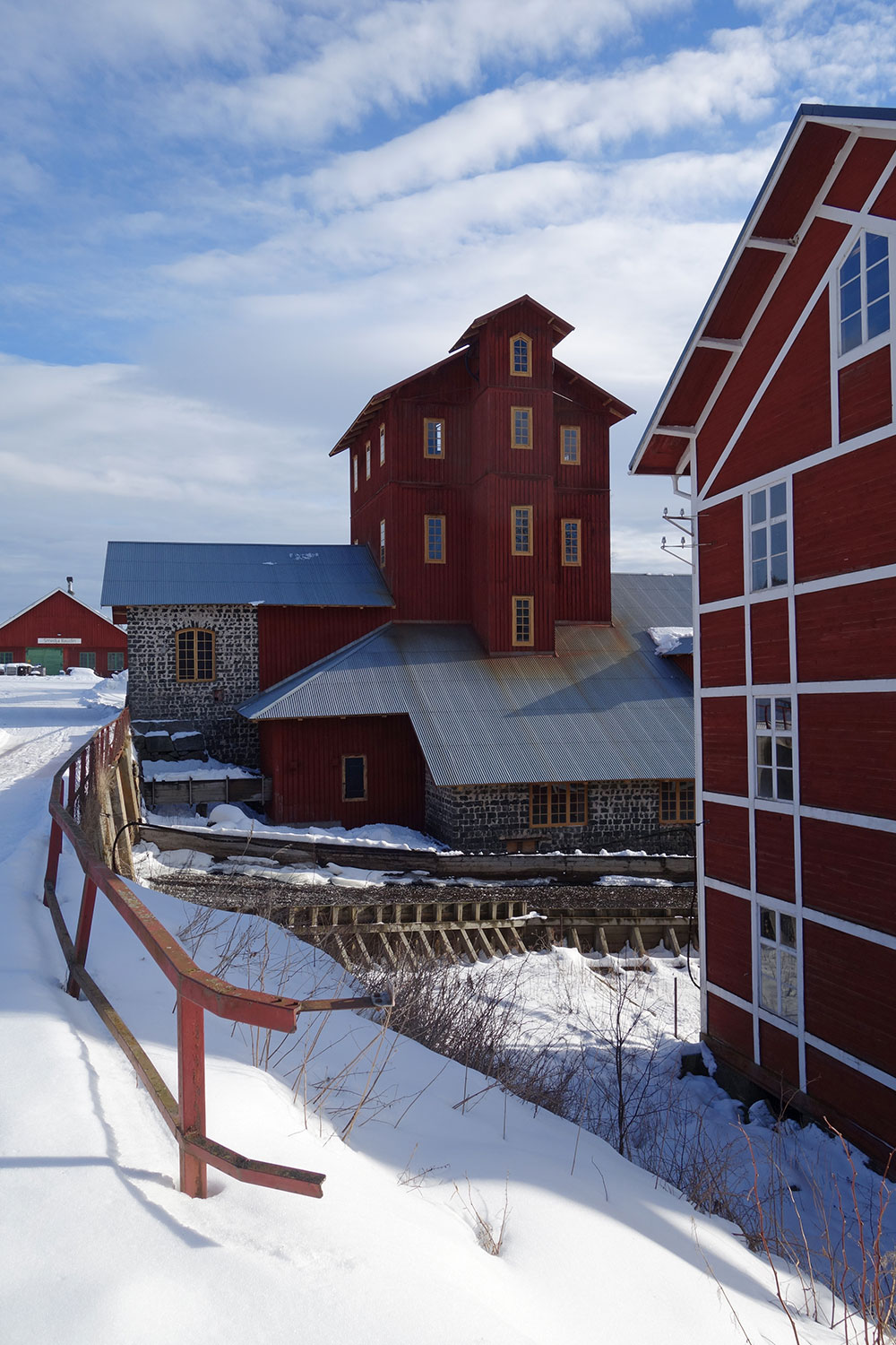 Olofsfors Ironworks with the blast furnace in the background and the mill in the foreground.